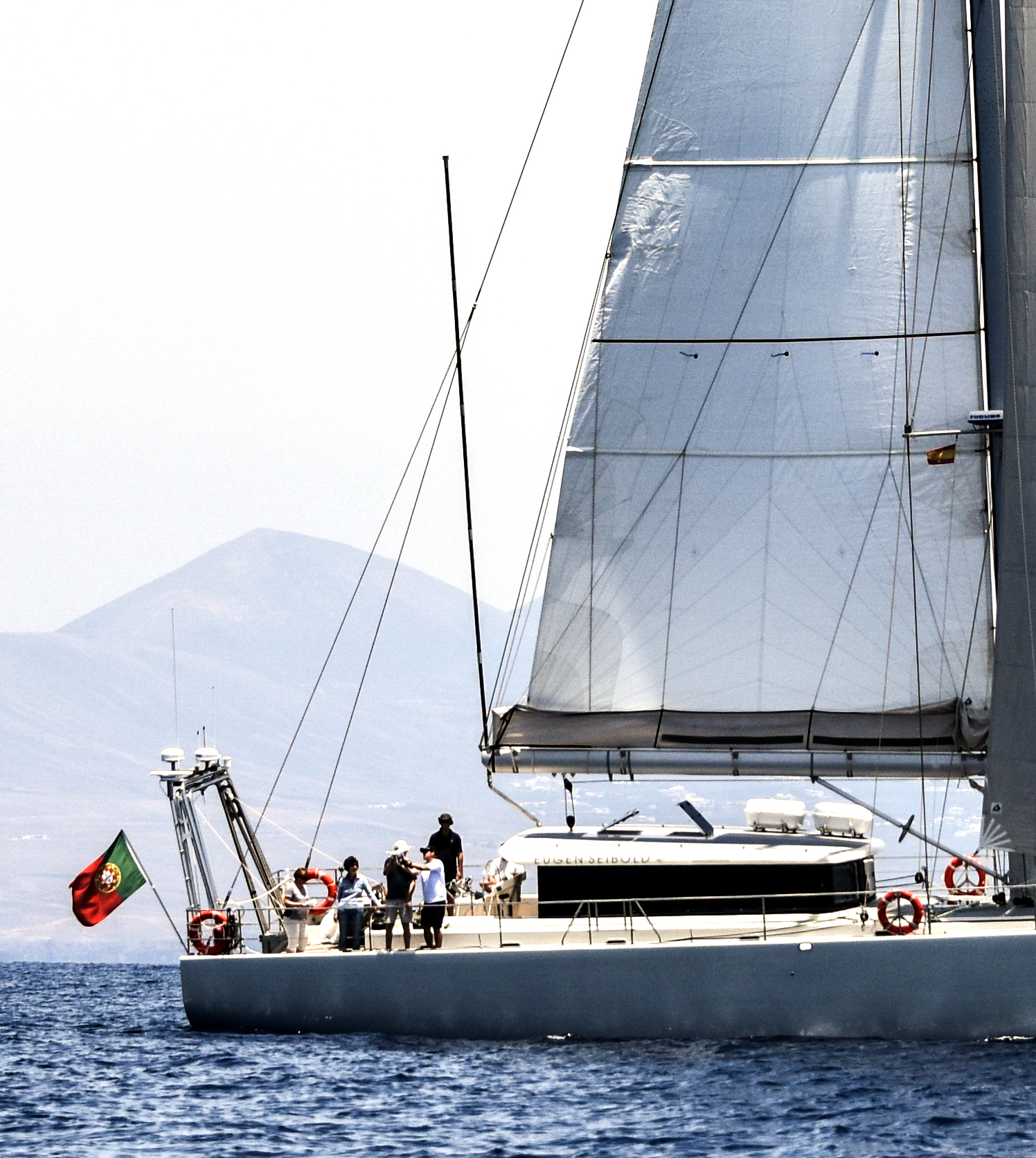 S/Y Eugen Seibold is a new research vessel designed for contamination-free sampling of seawater, plankton, and air. It is designed for flexible and dynamic topical operations.